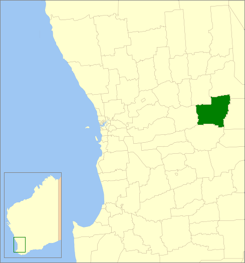 Description=Location of the Local Government Area in Western Australia